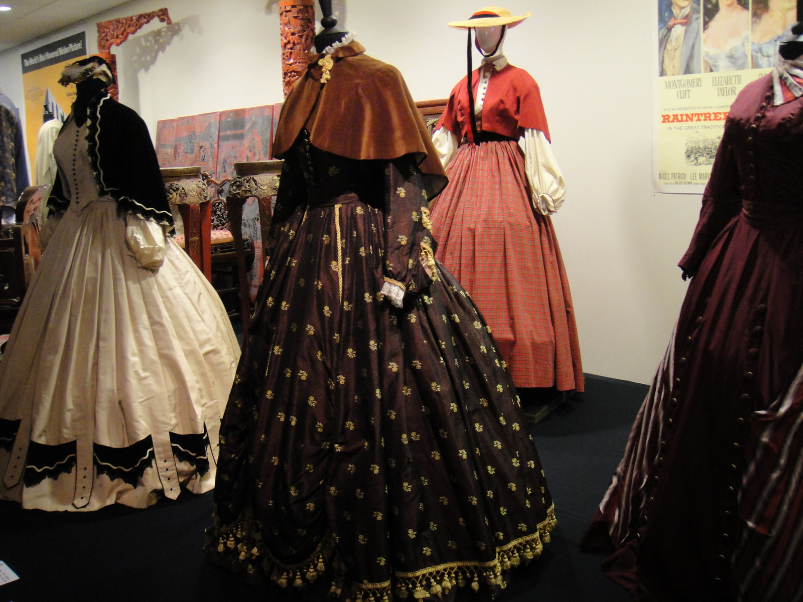 Dress worn by Elizabeth Taylor in "Raintree County" at the Debbie Reynolds Auction Breaks Up Historic Hollywood Collection (The Paley Center for Media in Beverly Hills, Los Angeles, CA, USA).